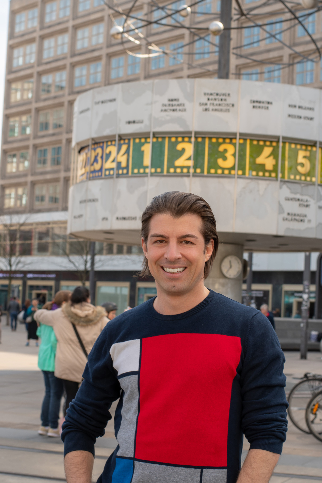 Andreas Kaplan, Professor of Marketing and Social Media / Dean and Rector of ESCP Europe